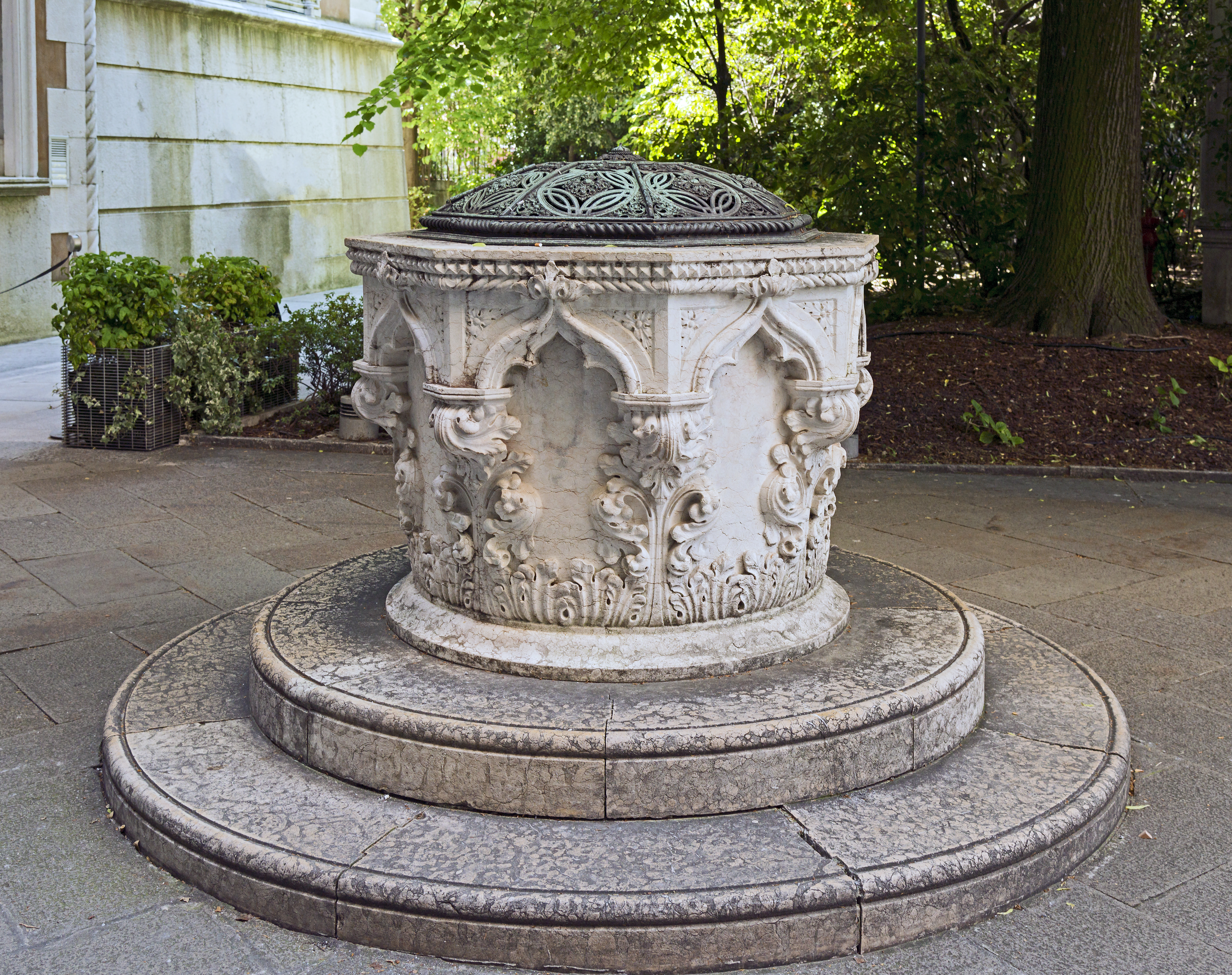 Palazzo Cavalli-Franchetti, Venice - The well